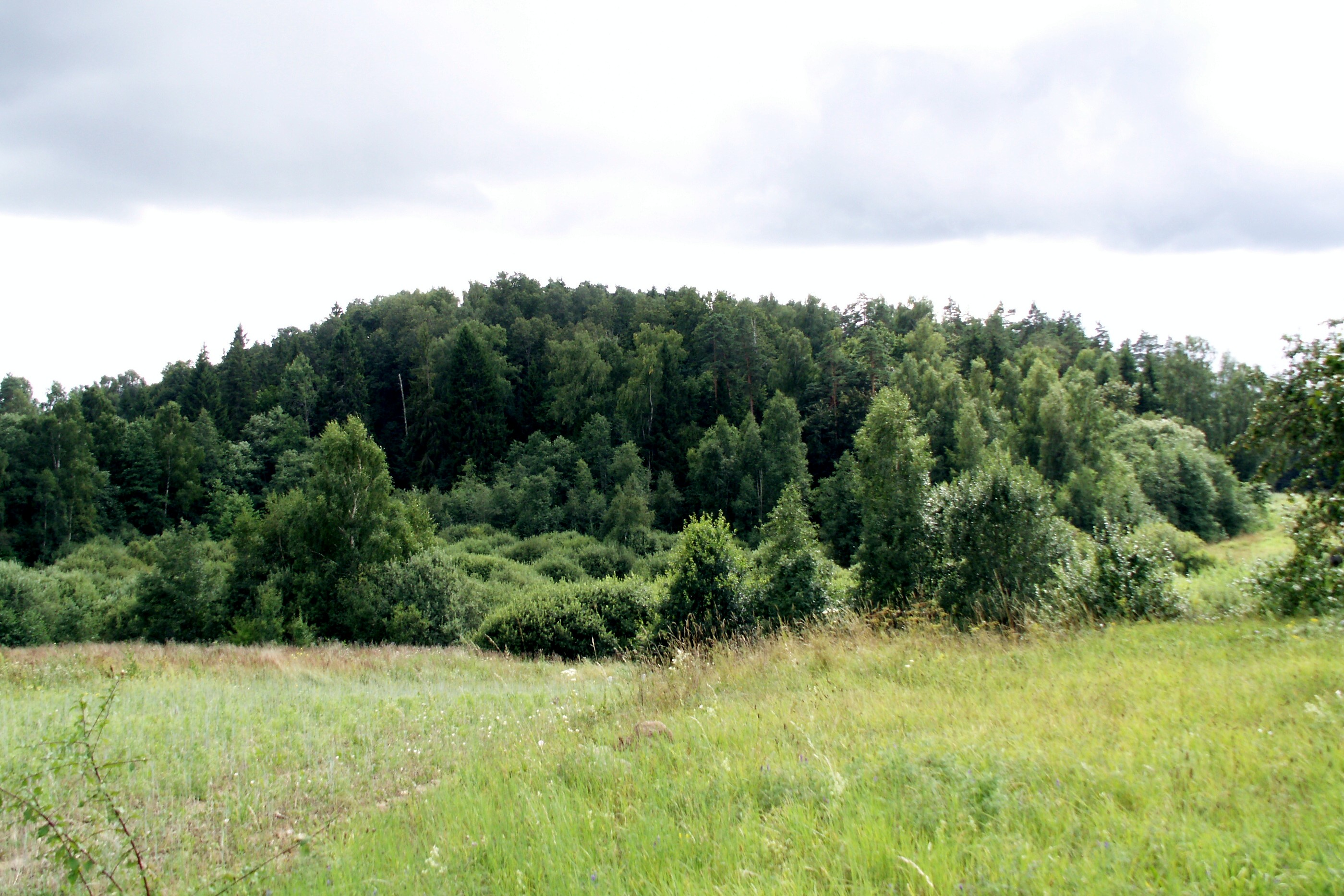 Liepkalnis in Laisvučiai, Šiauliai district, Lithuania